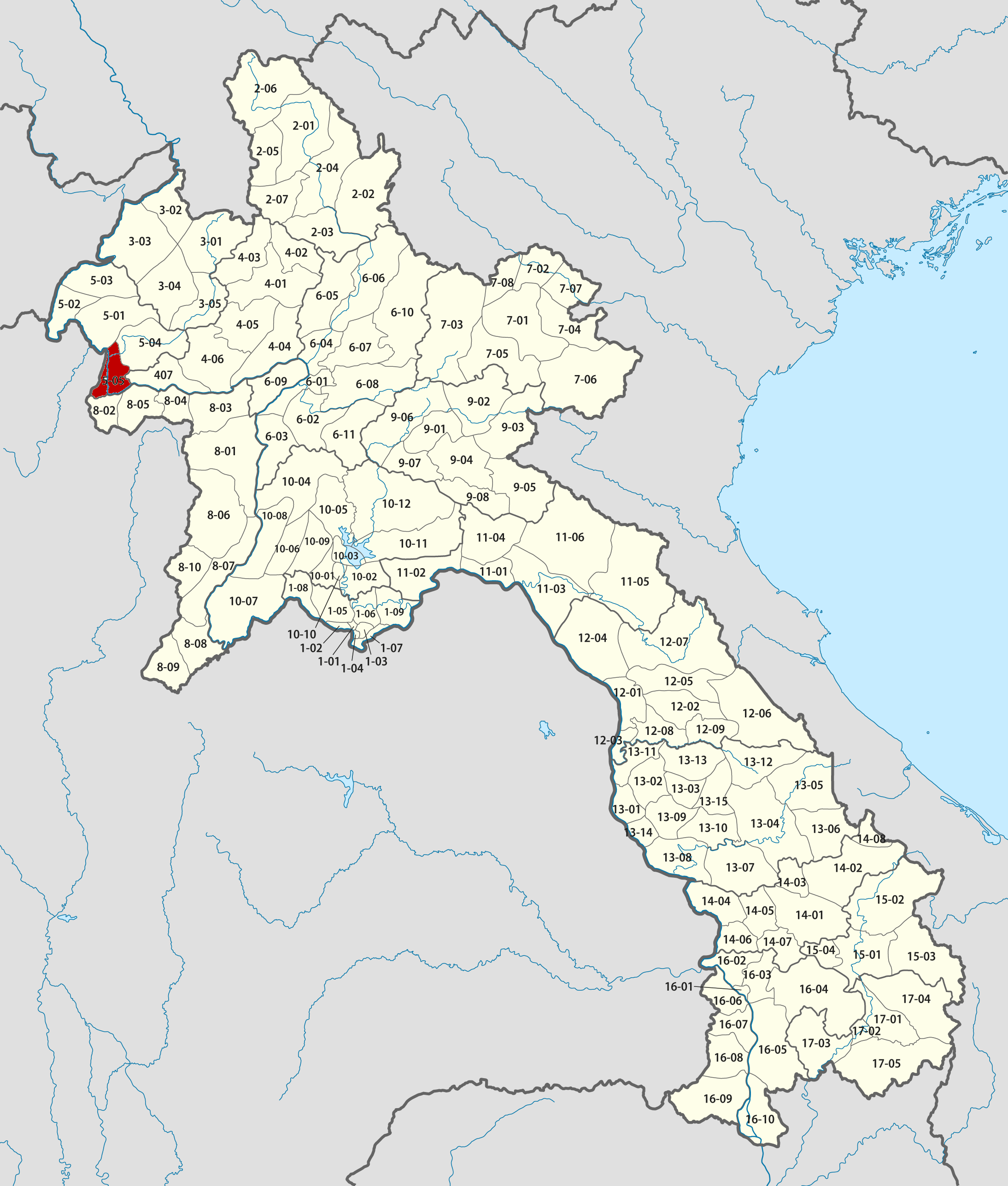 Paktha District in Laos